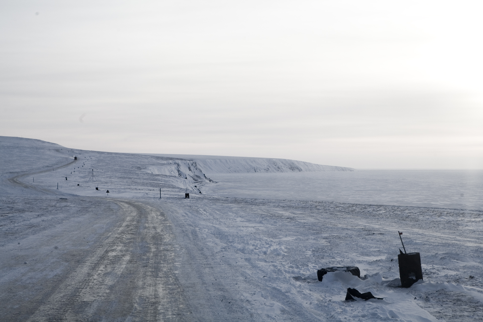 Picture of the 400 kilometer long winter road (partly an ice road) between the gold deposit Kupol (66°47'30"N 169°33'7"E) and the city of Pevek in Chukotka, Russia.